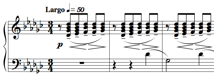 The first few measures of Preludes, Op. 23, No. 10. The set, composed by Sergei Rachmaninoff in 1901 was published before 1923, and thus is in the public domain.